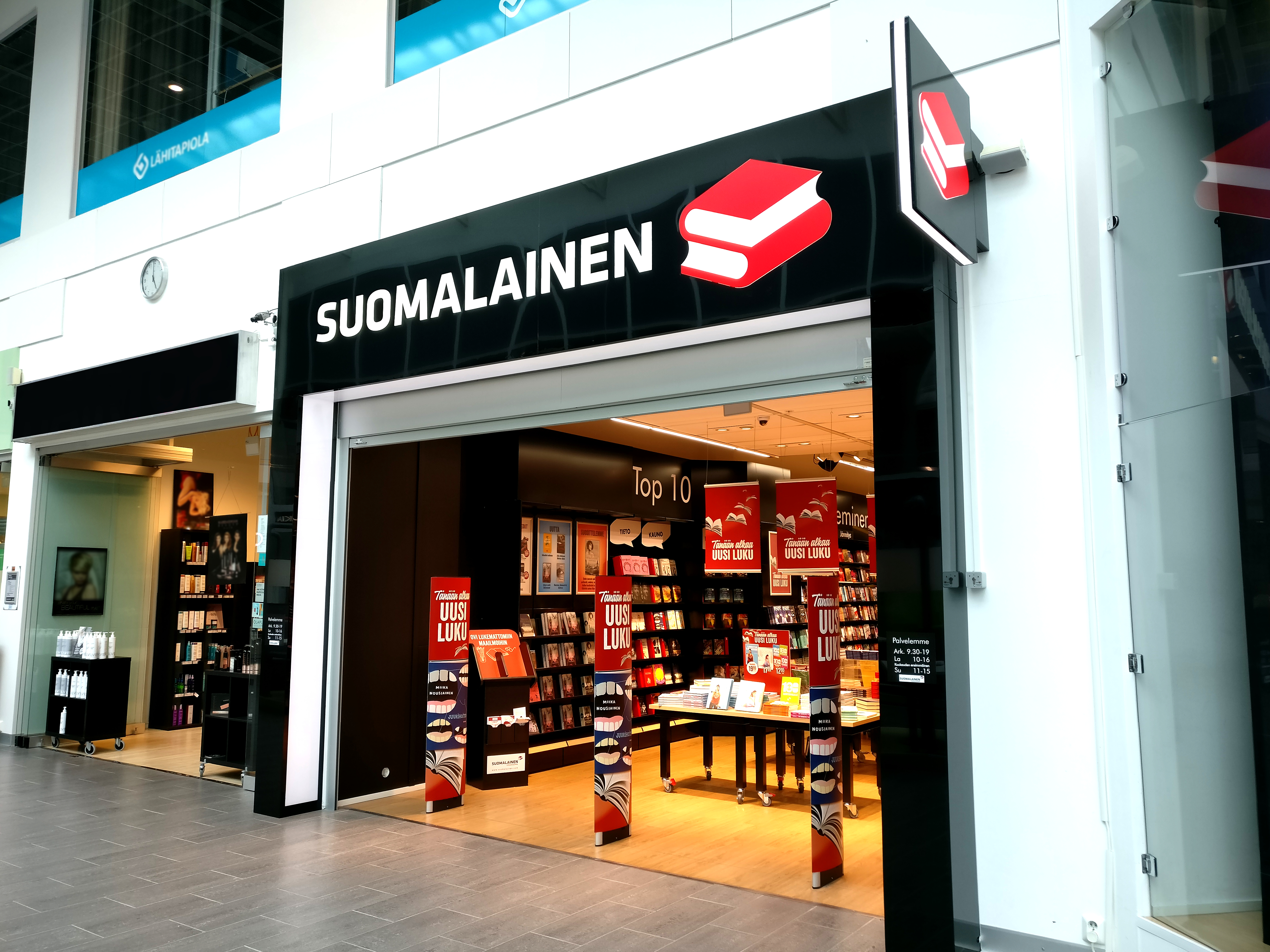 Suomalainen Kirjakauppa -bookshop in Seinäjoki.